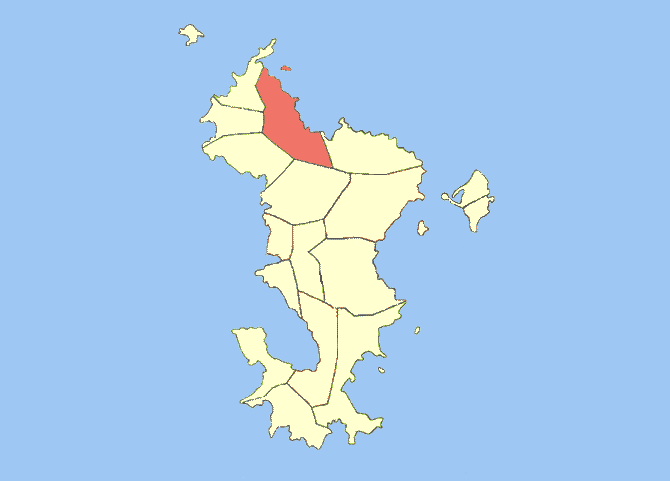 Locator map of Bandraboua